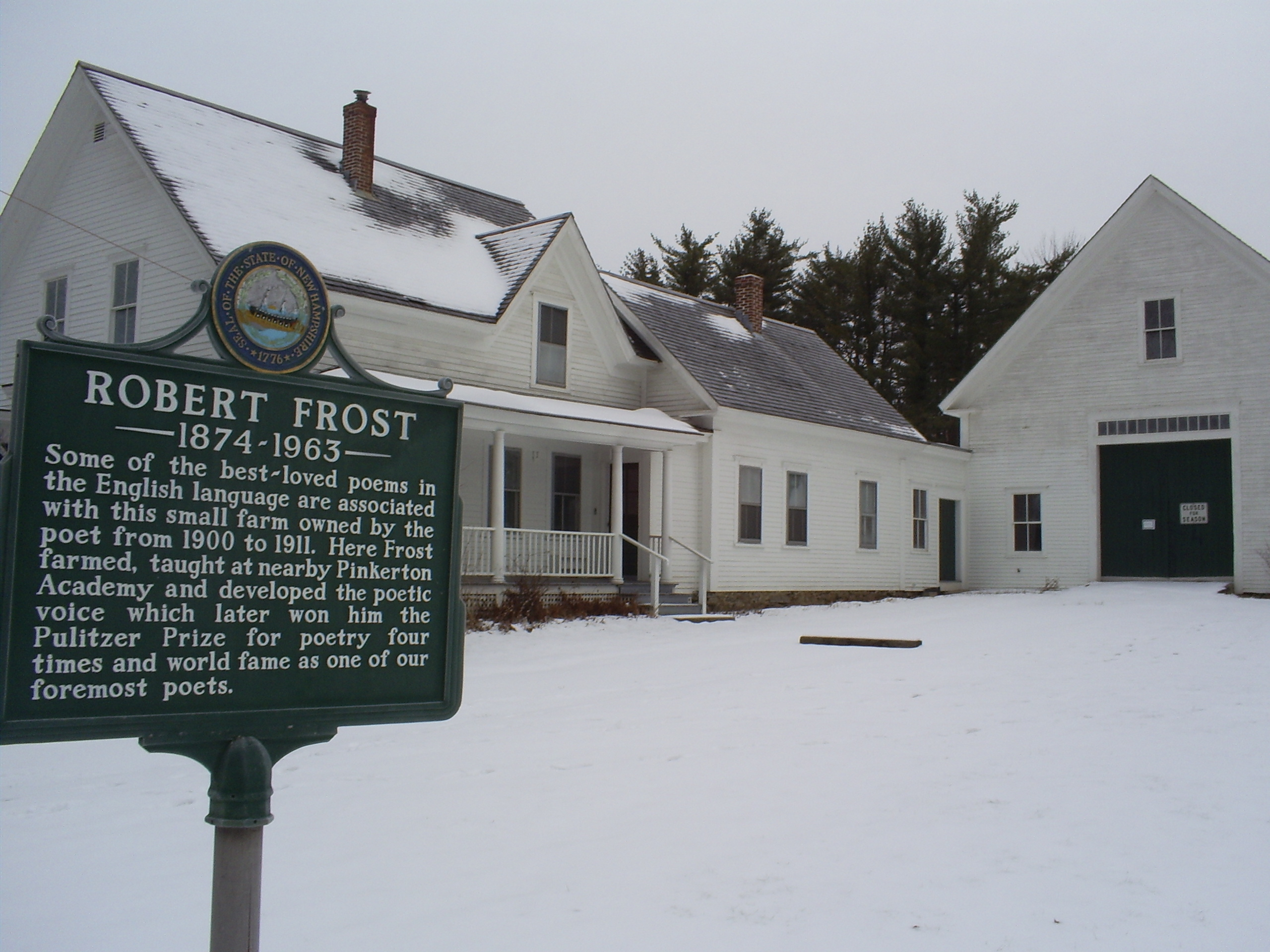 Photo by Craig Michaud.This is the Robert Frost Farm in Derry, New Hampshire.This is where he lived from 1900-1911.It was at this farm where he wrote many of his poems including West Running Brook, Tree at my Window, and Mending Wall.